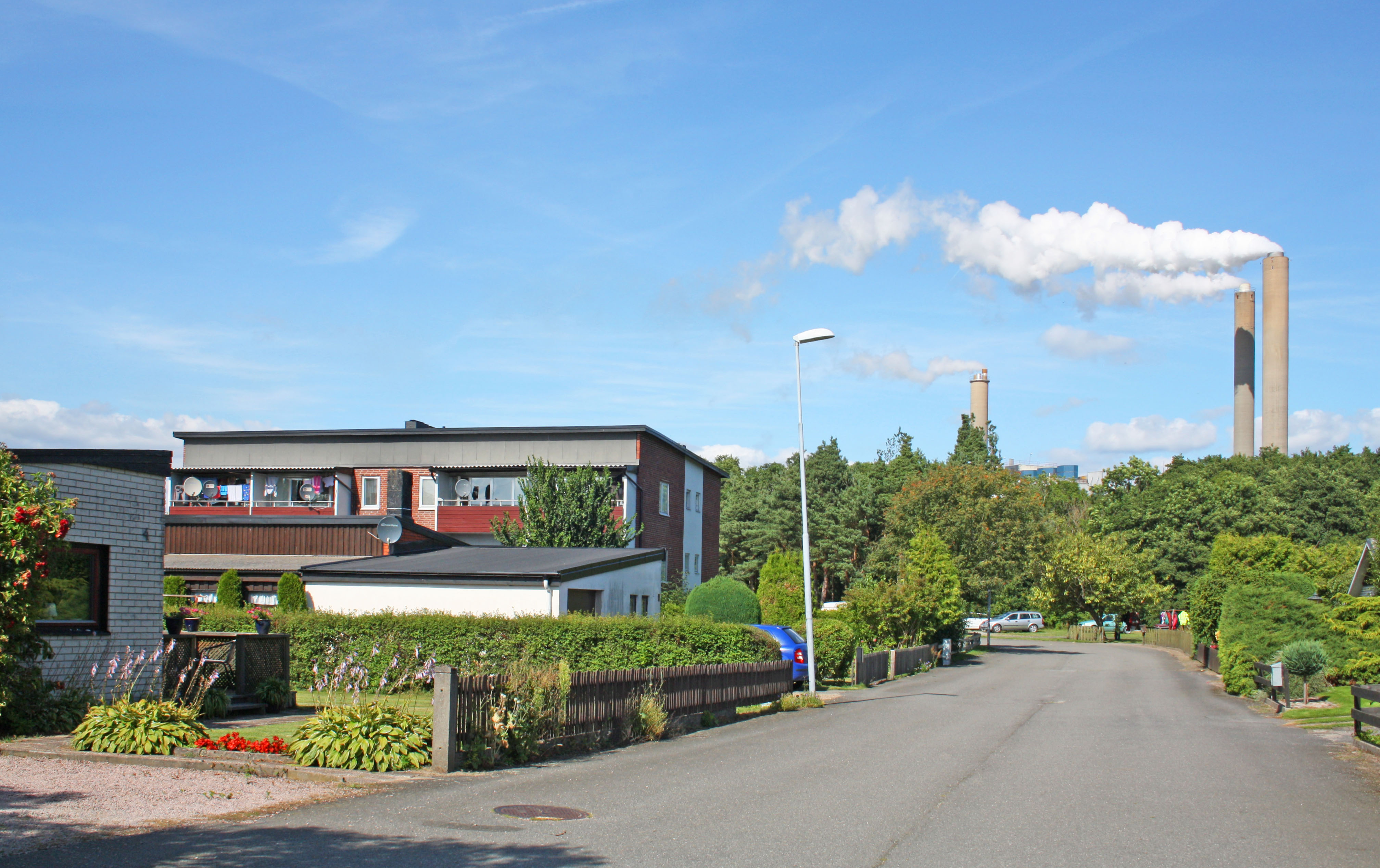 The Vinkelvägen road in Nymölla with the Nymölla pulp and paper mill in the background.